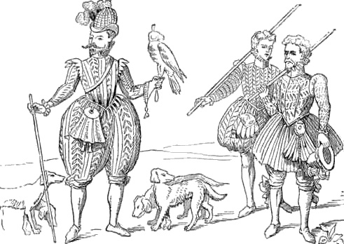 16th century drawing of a hawking party with Water Spaniels, reproduced in a 1903 book.